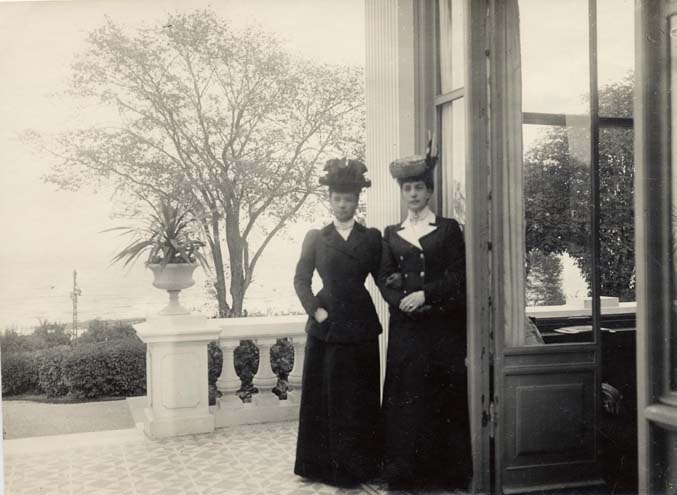 Queen Dowager Alexandra of England and Empress Dowager Dagmar of Russia at Hvidøre north of Copenhagen, Denmark, where they spend time every late summer from 1907 thorugh 1914 and Dagmar took up residency permanently from 1920 after the Russian Revolution had exiled her.